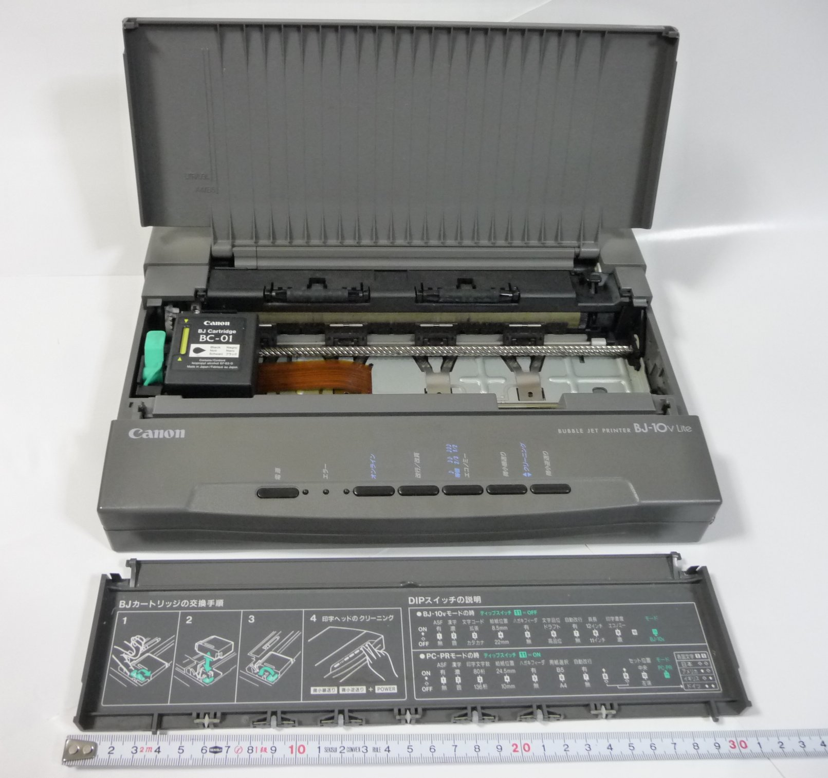 Canon BJ-10v Lite inkjet printer (less weight type on 1993, following BJ-10v on 1990 model) with the scale for sizing, inner cover detached and placed in front. printable alpha-numeric, Hirakana, Katakana and Kanji. Centronics interface type. black ink only type.